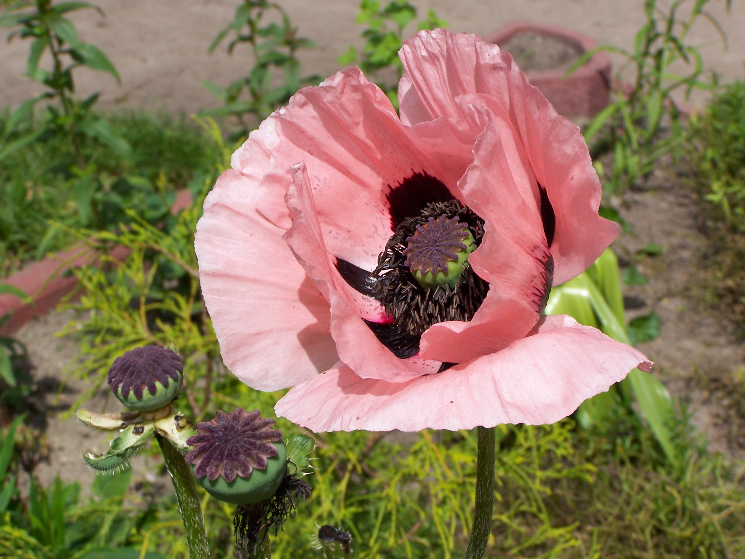 Oriental poppy at Katowice (Poland).